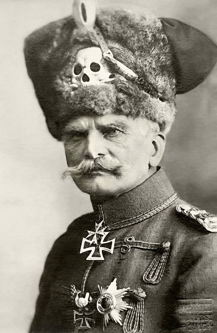 … in the uniform of the 1st Body-Hussars-Regiment, the so-called "Totenkopfhusaren", probably after the conquest of Belgrade in October 1915